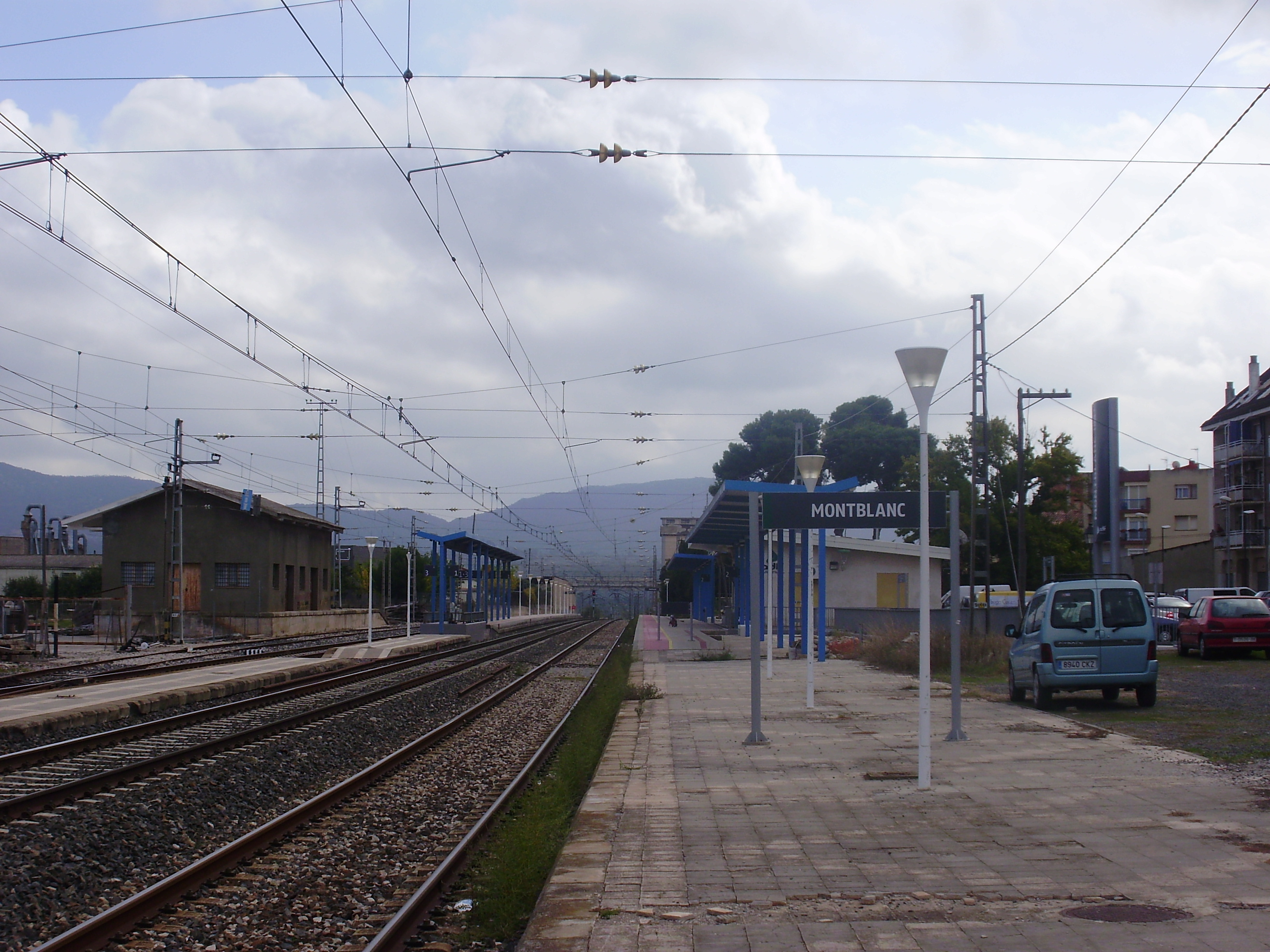 Train station of Montblanc, in La Conca de Barberà, catalonia